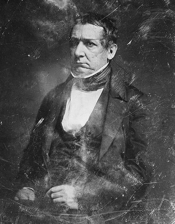 William M. Meredith